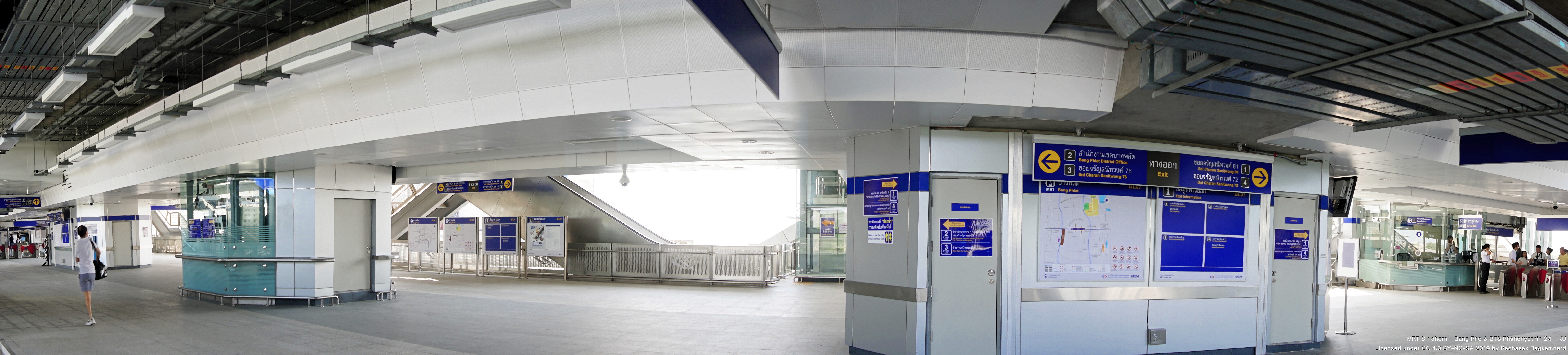 MRT Bang Plad - Ticket office area